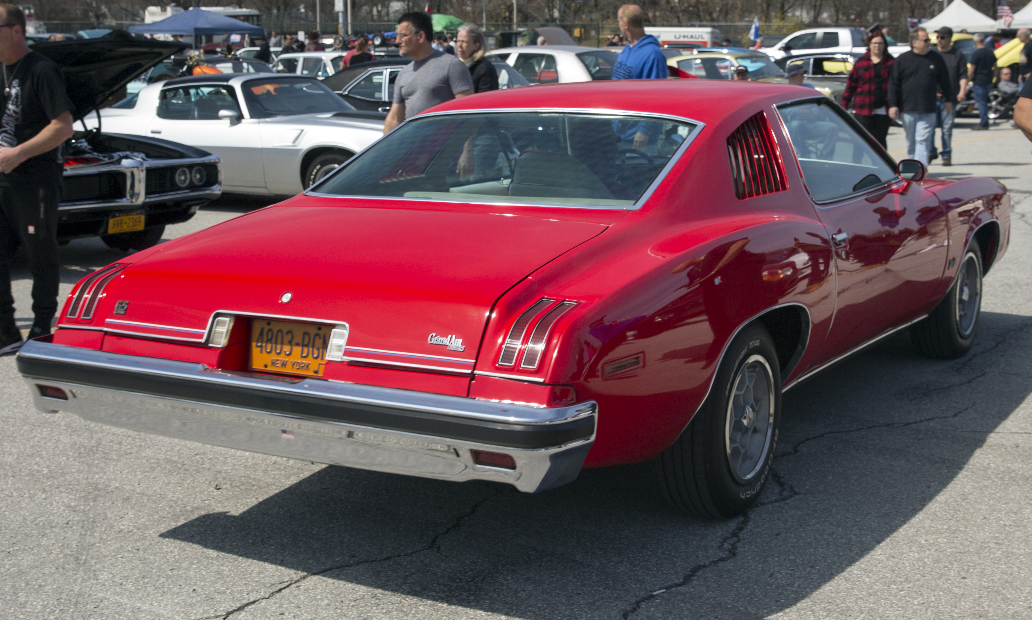 A 1974 Pontiac Grand Am two-door Hardtop 6.5-liter (400ci) at the Belmont Race Track.